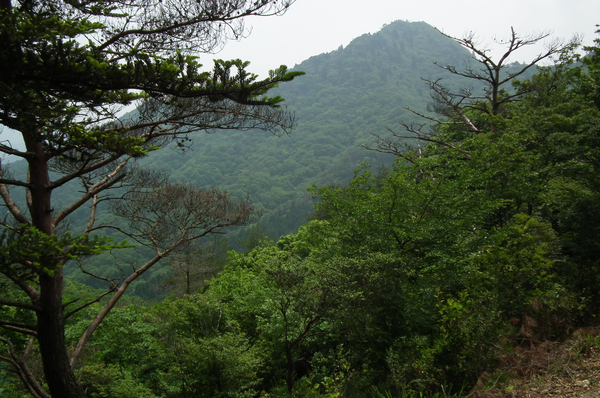 Mt.Shiraga